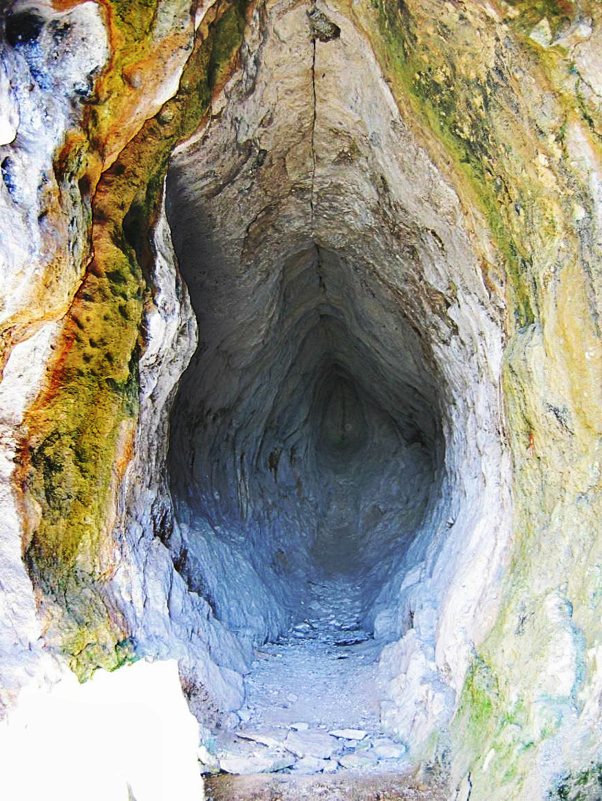 Tangardak_kaya_Womb_cave_Altair_East_Rhodopes_Bulgaria